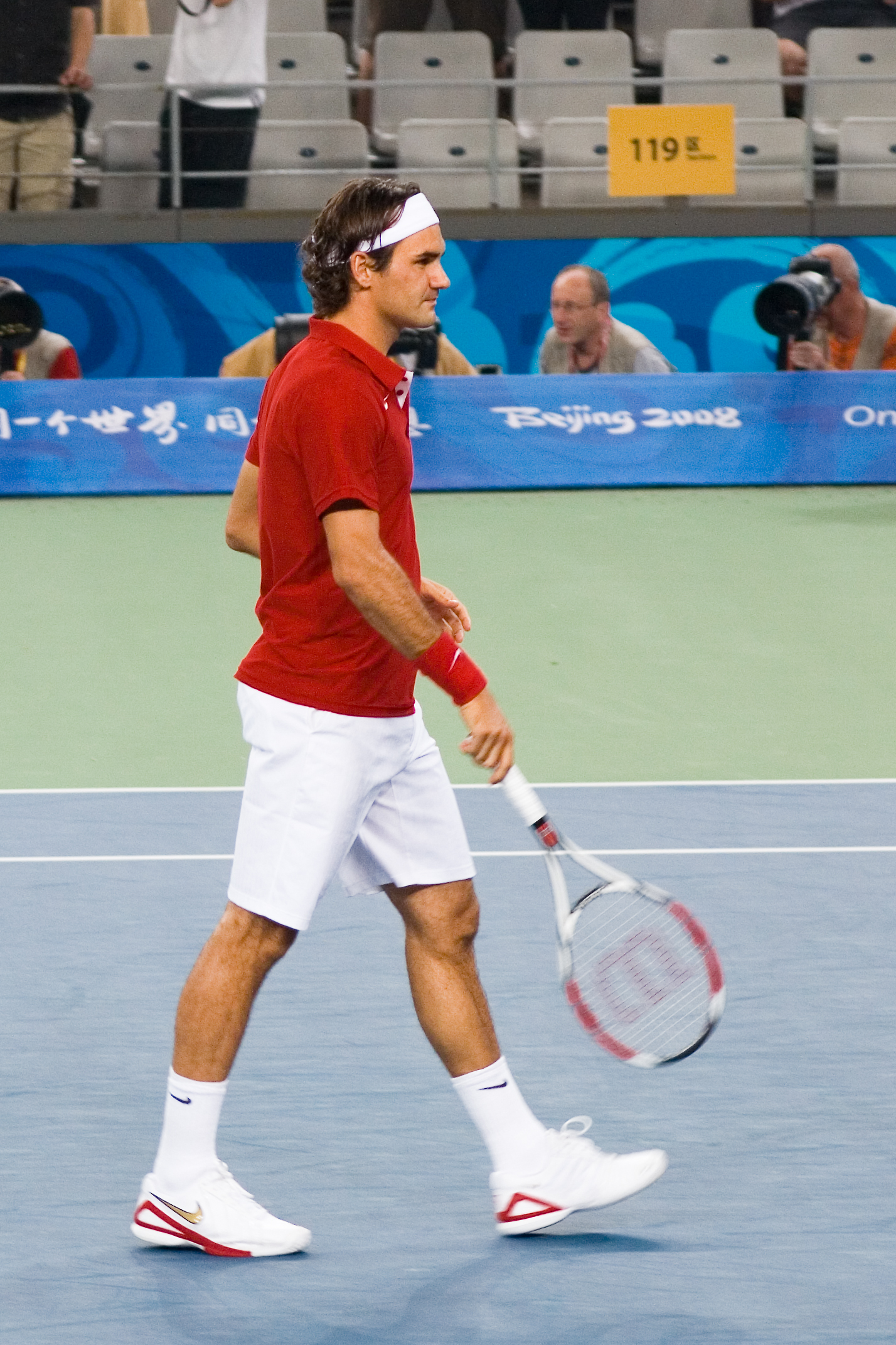 Roger Federer at the 2008 Beijing Olympics